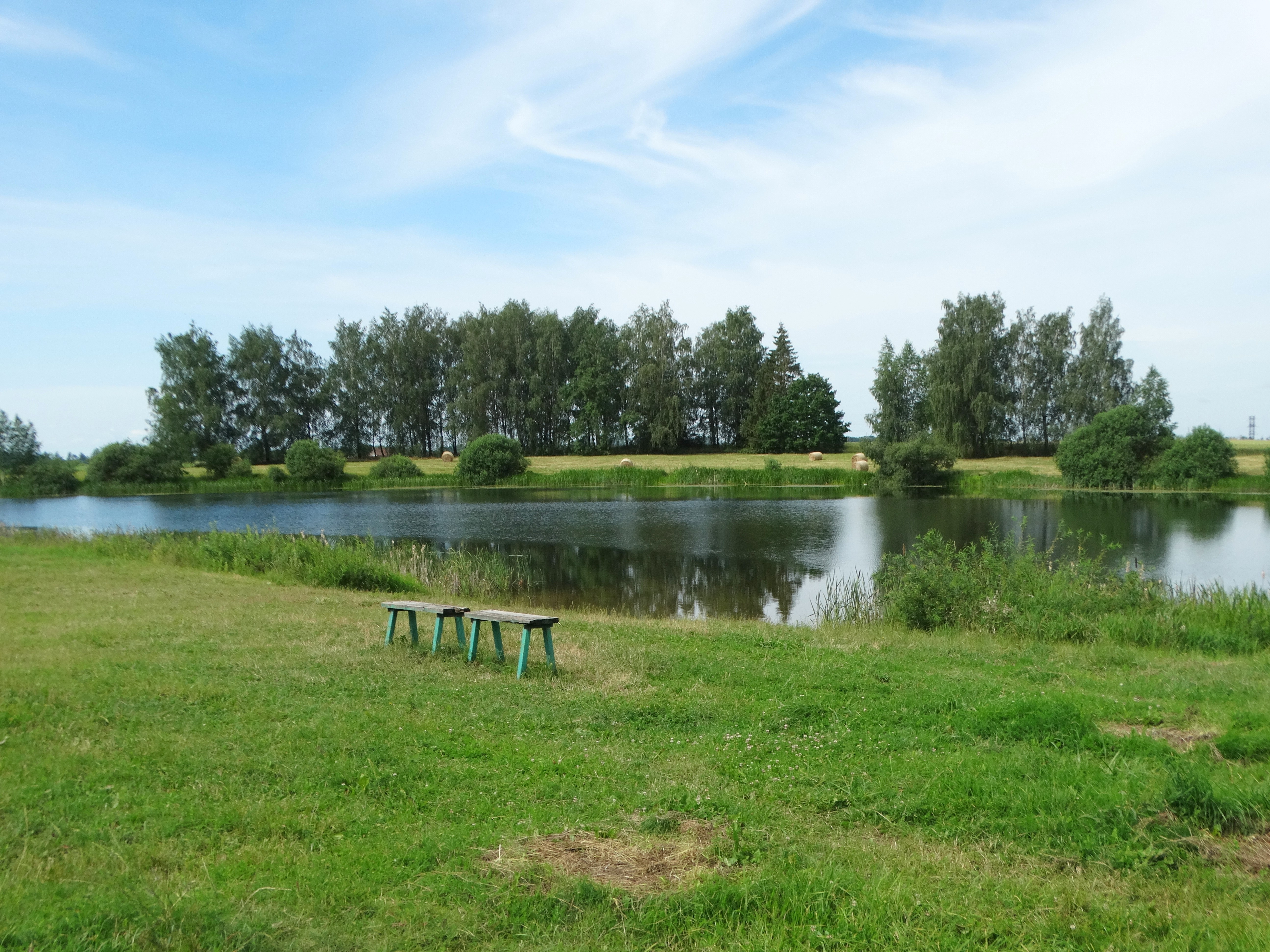 Žeimys Lake, Jonava district, Lithuania